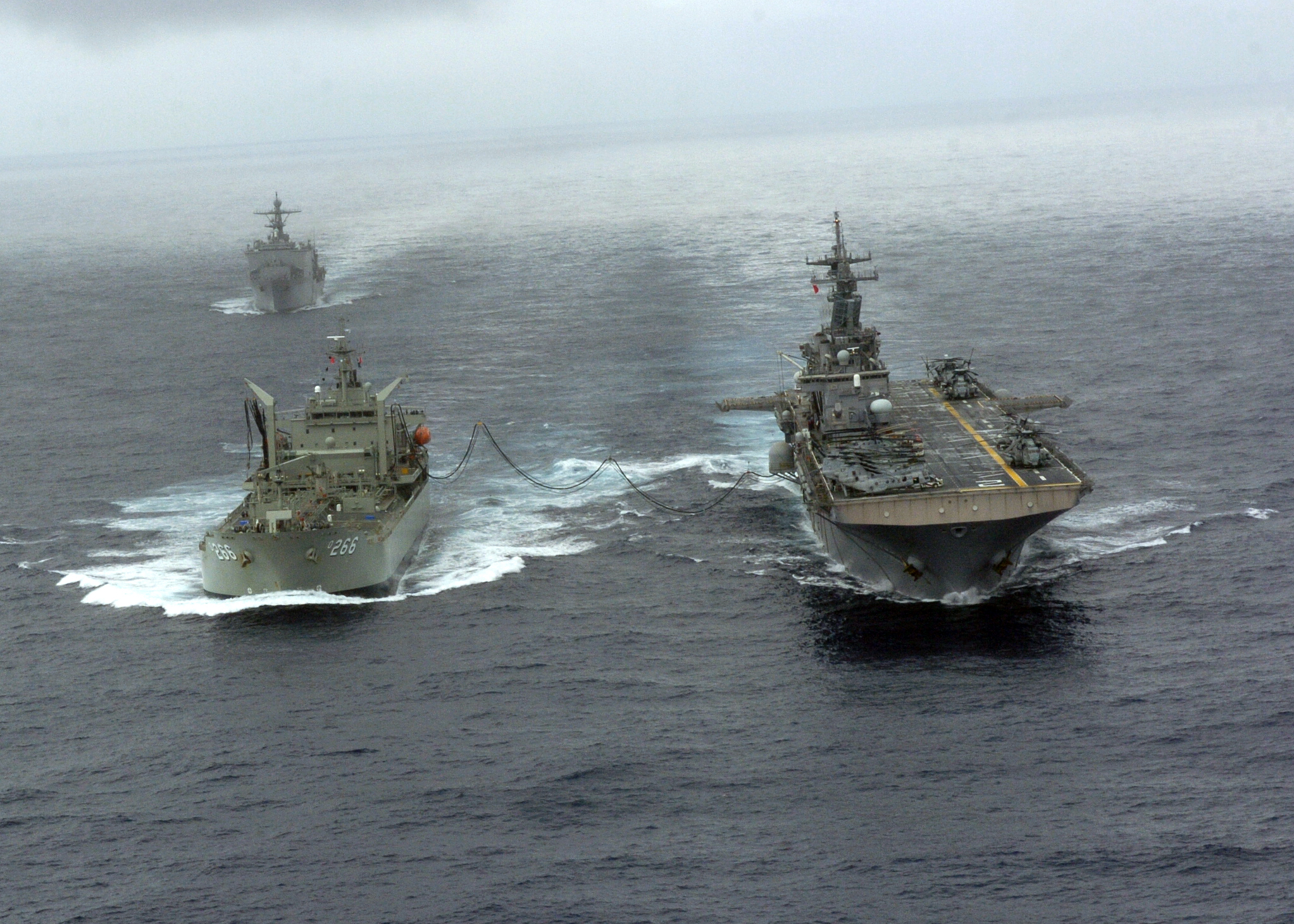 CORAL SEA (June 15, 2007) - Amphibious assault ship USS Essex (LHD 2) conducts a refueling at sea with Australian auxiliary oiler HMAS Sirius (AOR 266) as dock landing ship USS Tortuga (LSD 46) approaches during exercise Talisman Saber 07 (TS07). TS07 is a U.S. and Australian-led Joint Task Force operation preparing our militaries for crisis action planning and execution of contingency operations. TS07 is designed to maintain a high level of interoperability between U.S. and Australian forces, demonstrating the U.S. and Australian commitment to our military alliance and regional security. U.S. Navy photo by Mass Communication Specialist 1st Class Jeremy L. Wood (RELEASED)